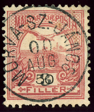 Cancellation of Morva-Sz-Janos in 1900 on a 50 filler stamp of Hungary